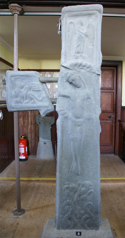 Kilmartin Sculptured Stones, Kilmartin Glen, Scotland - cross no 3 (in church)